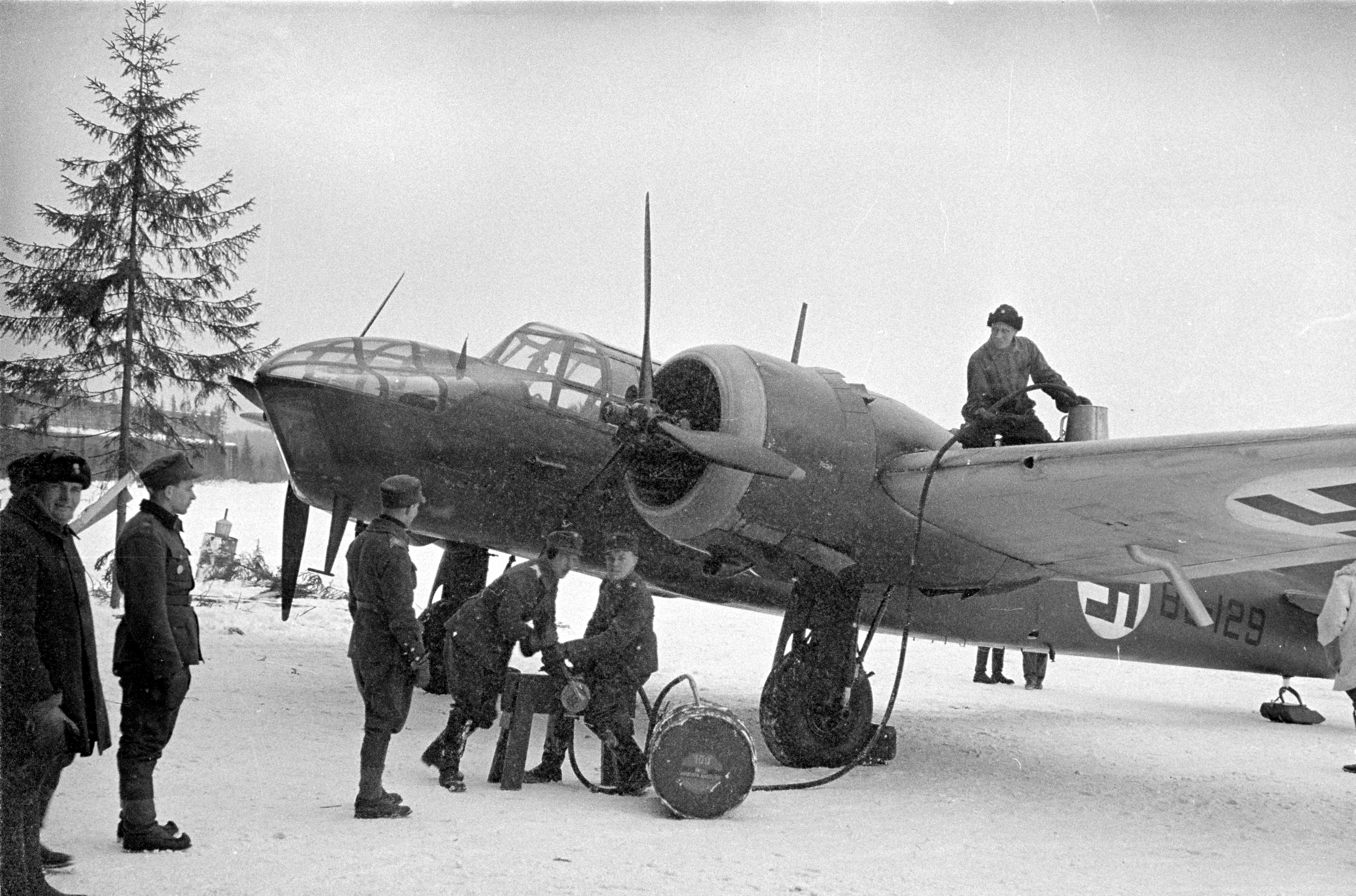 Bl-129, a Bristol Blenheim Mk. IV bomber of the No. 44 Squadron, refueling at its air base at Luonet Lake in Tikkakoski